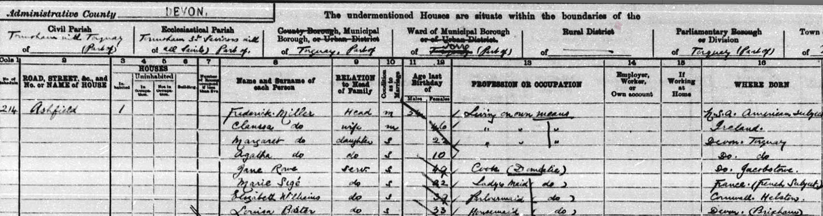 Census of 1901 for Ashfield, Torquay